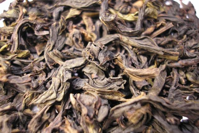 I am the author, this is a picture of tea leaves I took.